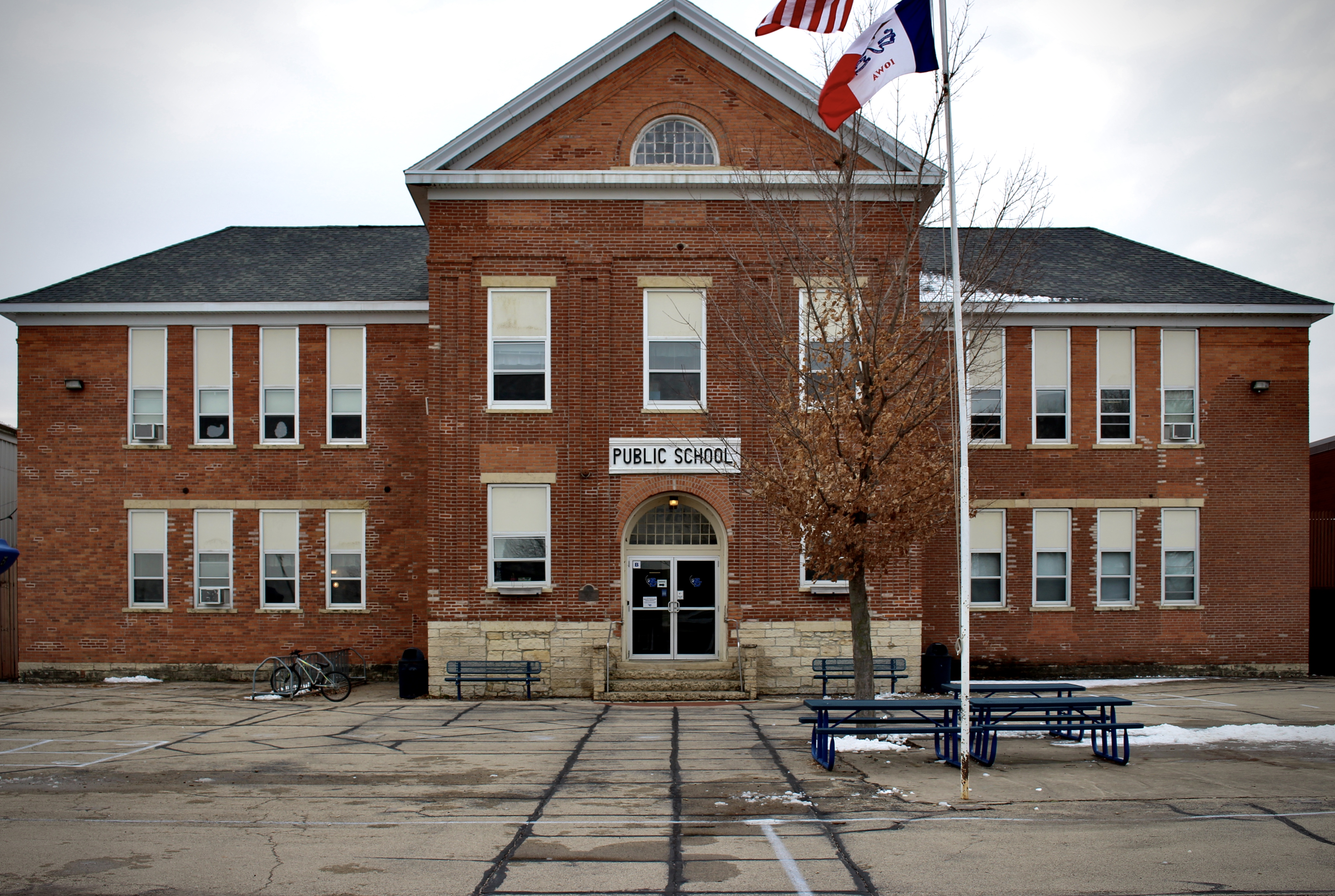 The former Jackson County (Iowa) Courthouse, now a public elementary school.